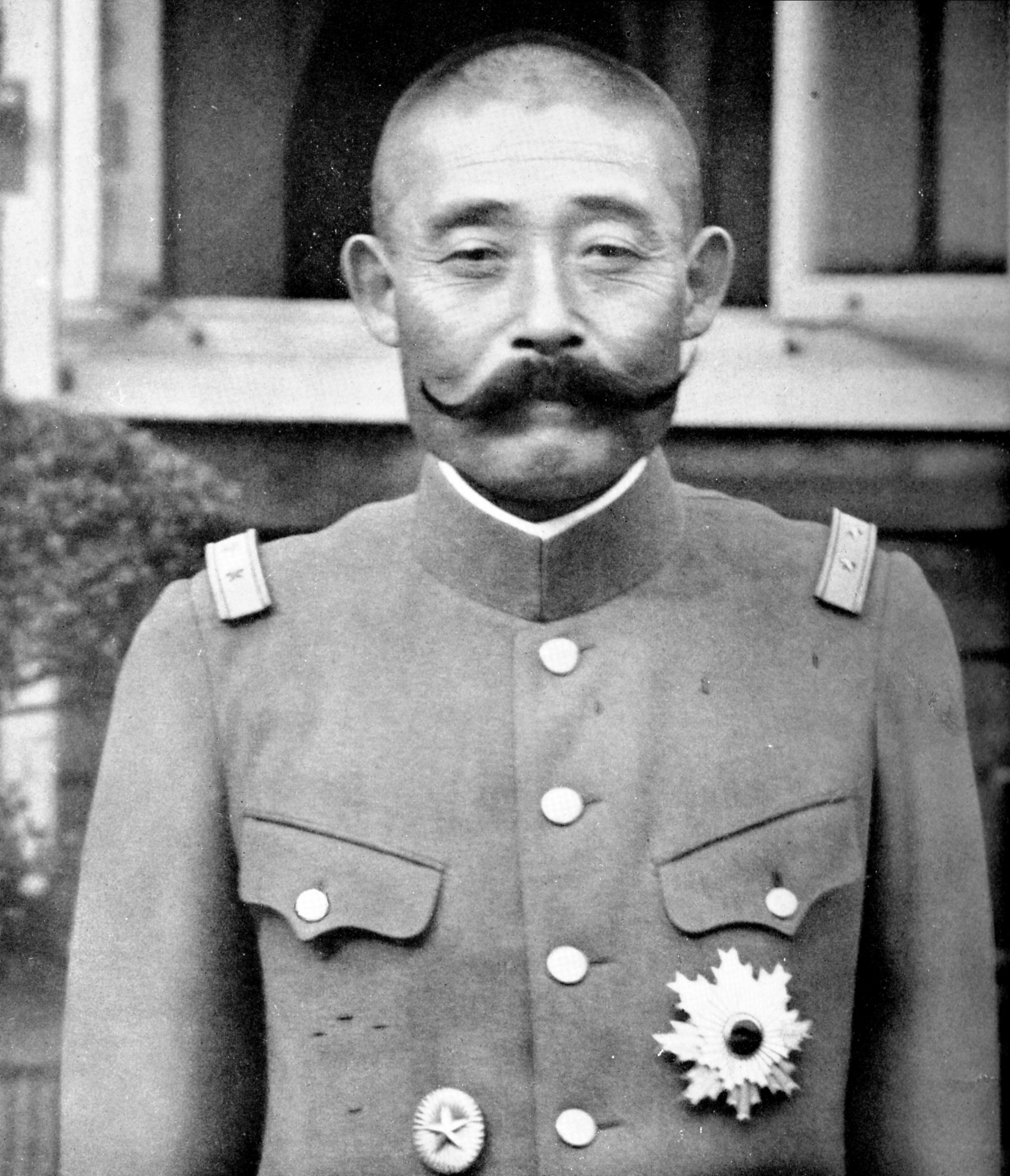 General Moto Furusho or 古荘幹郎